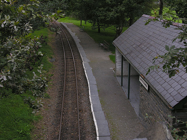 Rhydyronen station, Talyllyn Railway Looking west onto the platform from the road bridge east of the station.